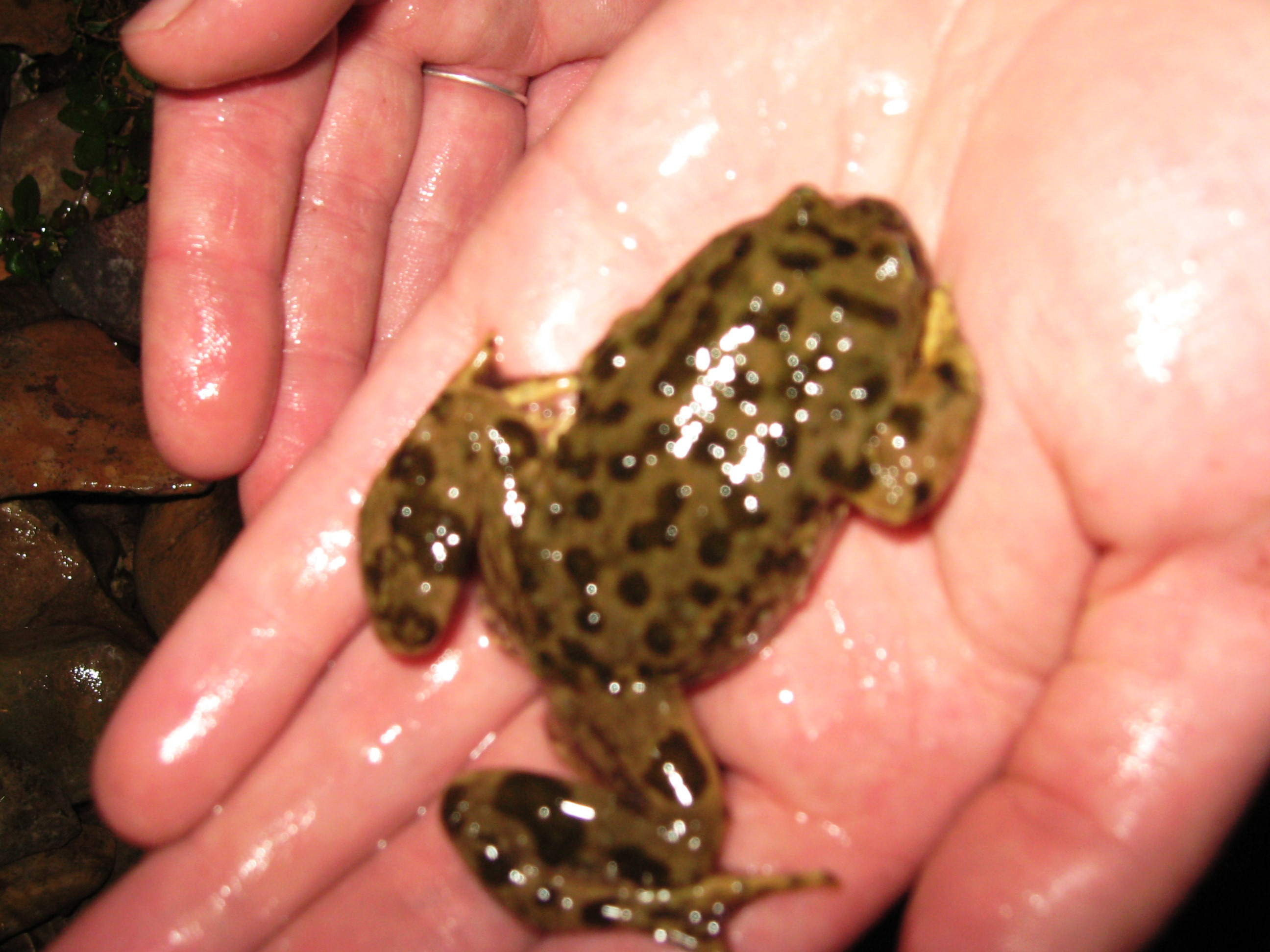 A marbled water frog (Telmatobius marmoratus) caught from a stream on Isla del Sol, Lake Titicaca Bolivia.